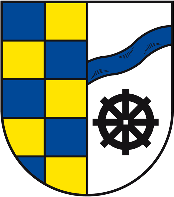 Coat of arms of Nieder Kostenz